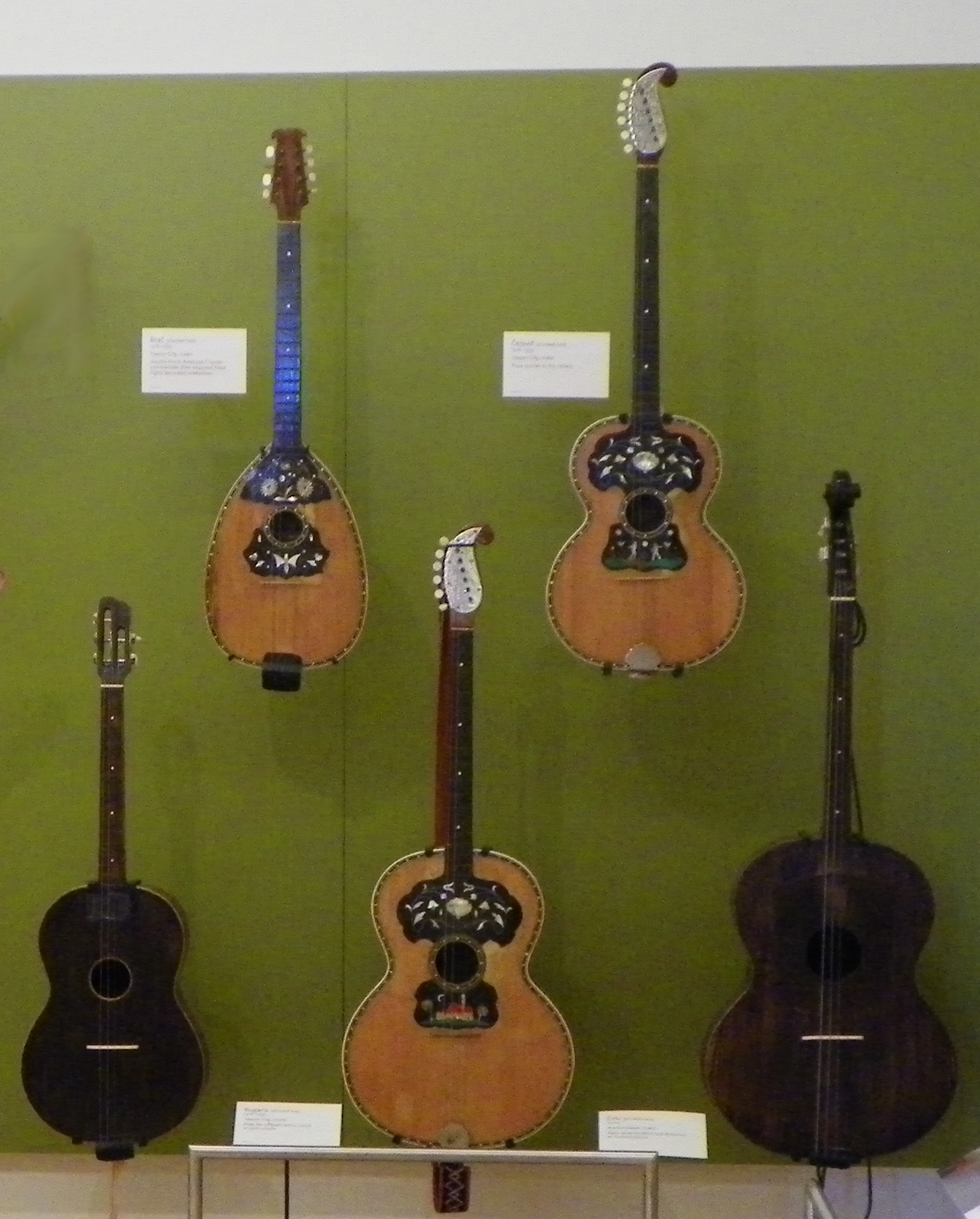 Photograph of musical instrument(s) taken at the Musical Instrument Museum (Phoenix) on 2011-04-26. “Tamburitza instruments displayed at permanent exhibition at The Musical Instrument Museum (MIM) Tempe, AZ 85284. Shell inlaid pear like brač and guitar like shaped brač and bugarija are made by Gilg, Sisak, Croatia. Smaller dark colored is brač made by B. Grđan, Gračani, Zagreb. The large dark colored is čelo.” —Tamburica